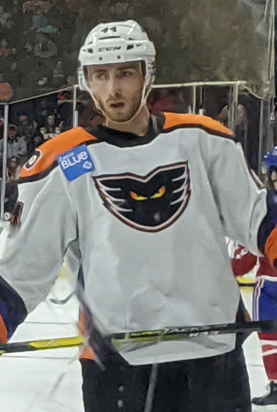 Reece Willcox, a defenseman with the Lehigh Valley Phantoms ice hockey team, at the PPL Center in Allentown, Pennsylvania, on January 11, 2020.